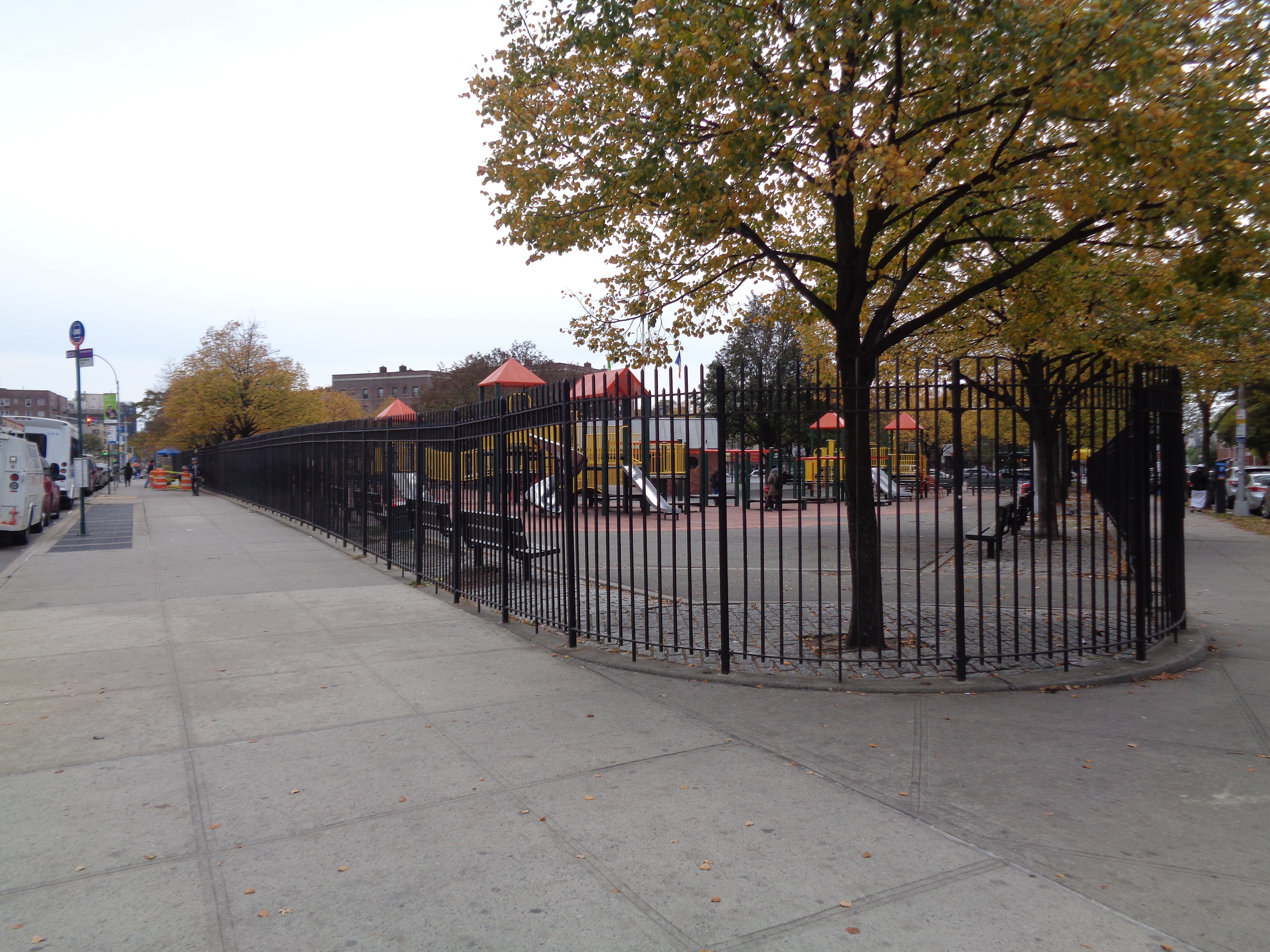 Frank D. O'Connor Playground, at Broadway and 78th Street across from Elmhurst Hospital Center in Elmhurst, Queens. This park was built as a WPA project in 1937 from land taken for the adjacent IND Queens Boulevard Line subway. Allegedly, bellmouths for the proposed Windfield Spur to central Queens and Rockaway are located under the park.